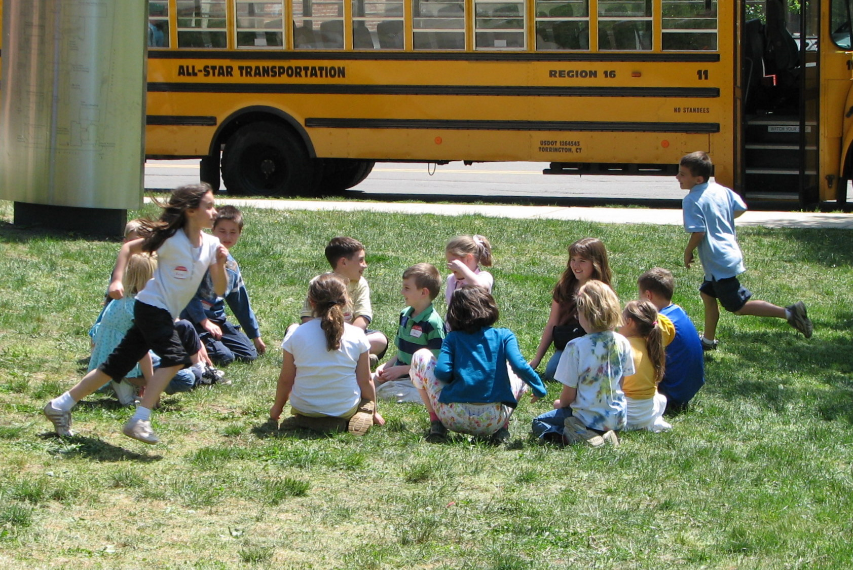 Children playing "Duck Duck Goose", on Yale University's Science Hill near the Peabody Museum of Natural History